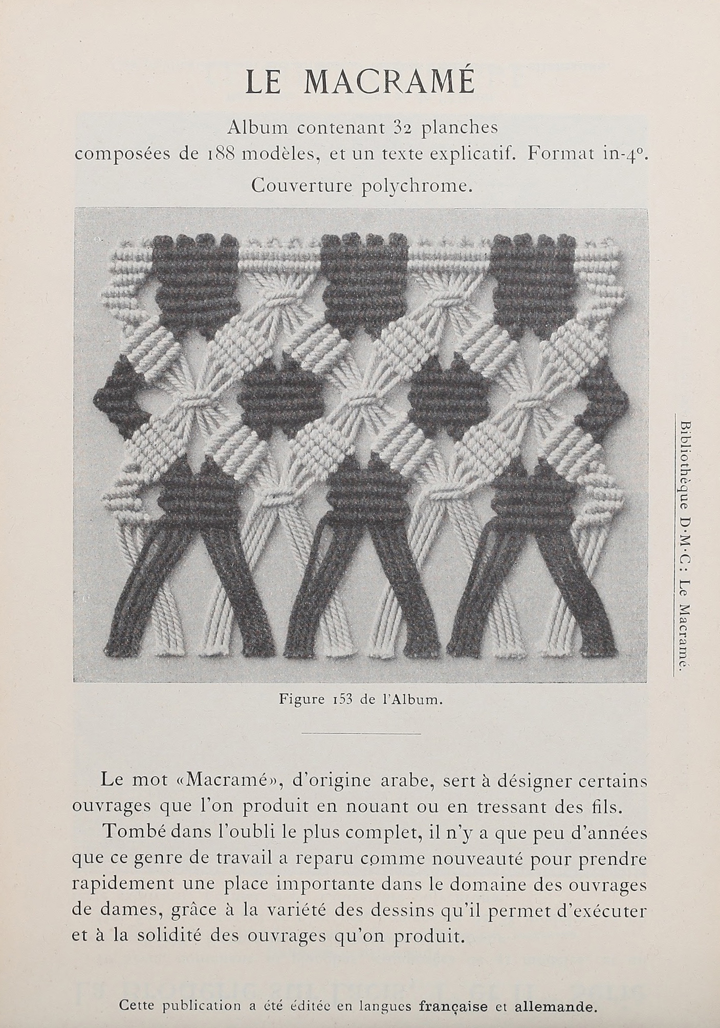 Page / illustration from Motifs pour broderies (1922). Book digitized from Smithsonian Libraries. Scan on Internet Archive